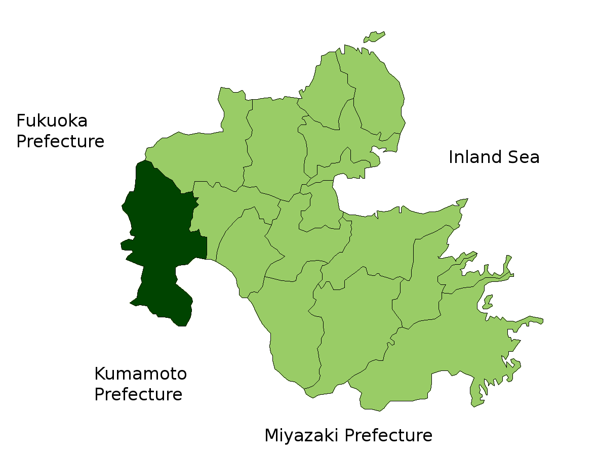 Location Map of Hita in Oita Prefecture, Japan